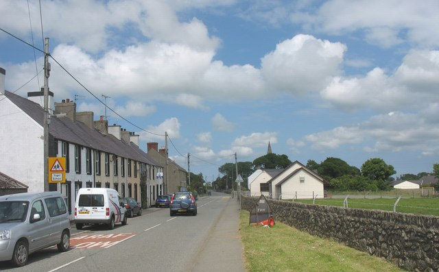 The B 4421 at Llangaffo The white building on the right is the village primary school. It is a Church in Wales (Anglican) Voluntary Aided School.